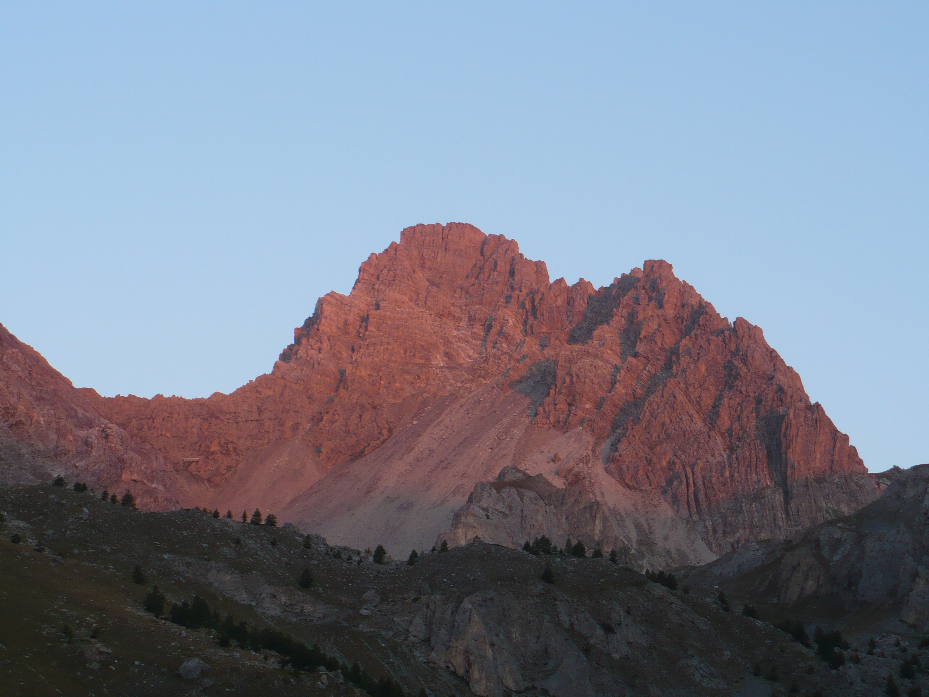 Mount Oronaye - Cottian Alps - Alps of Italy - Alps of France